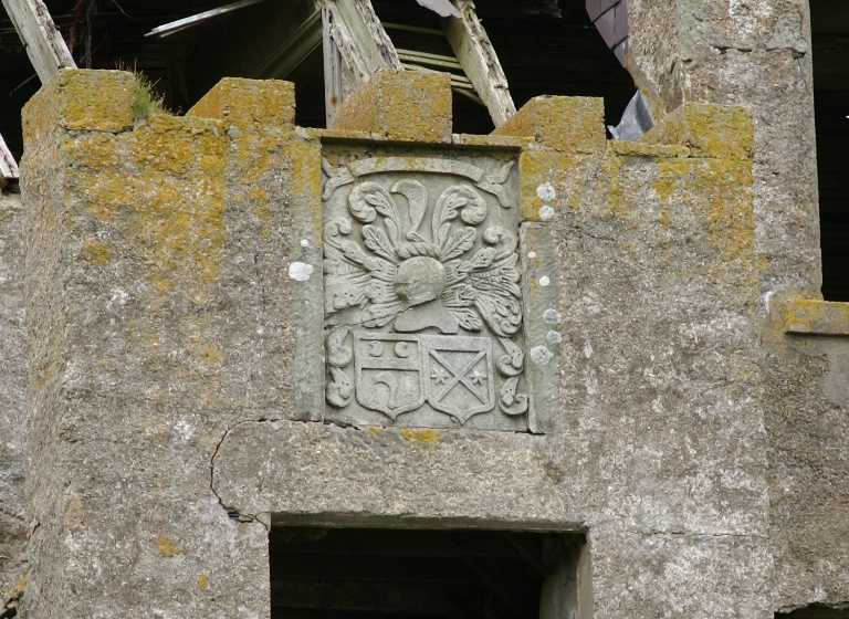 Windhouse, Yell, Shetland, Scotland - detail front with arms